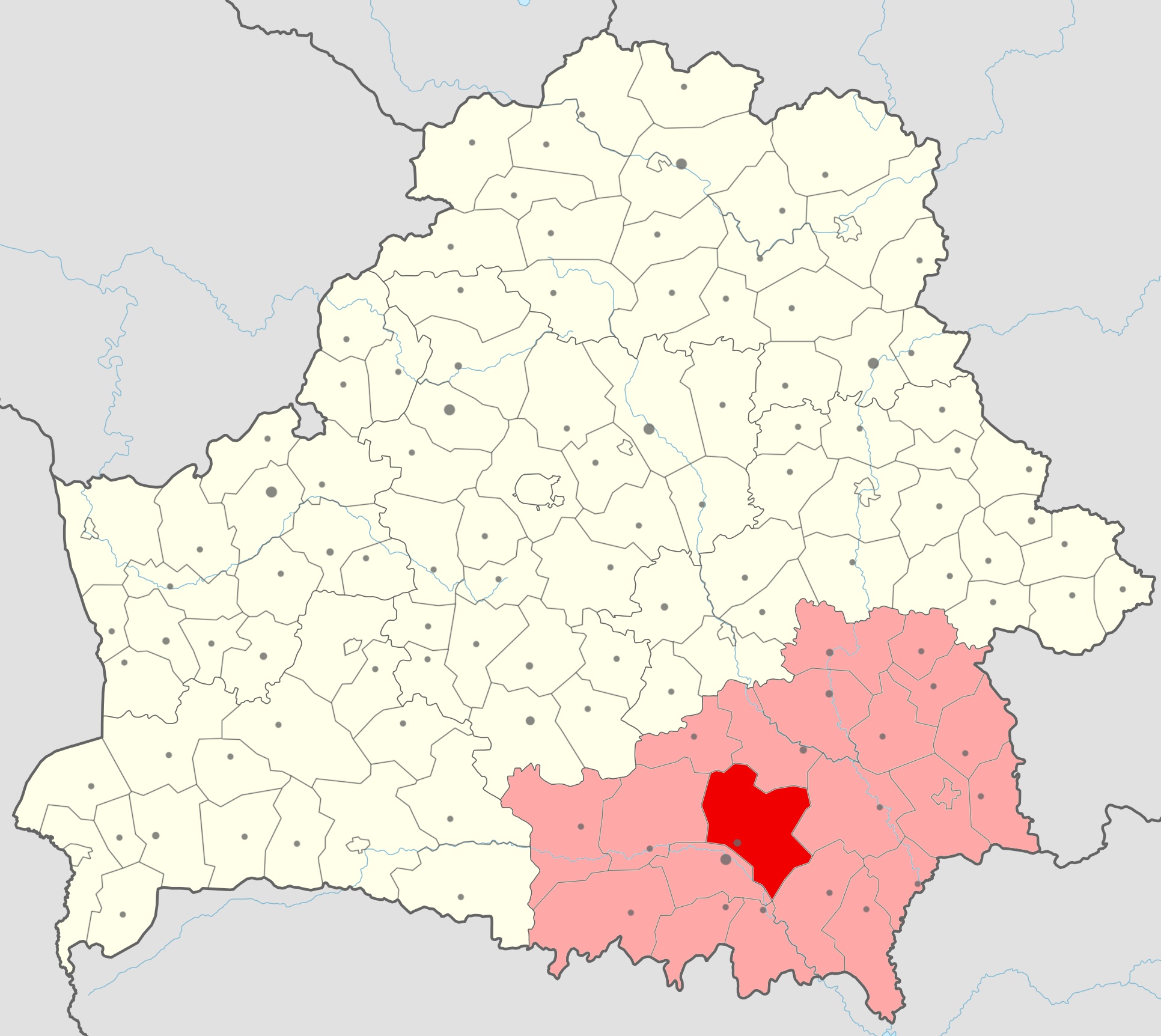 Location of Kalinkavicki rajon (red) in Homieĺskaja voblasć (light red) in Belarus.